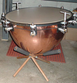 Timpani.